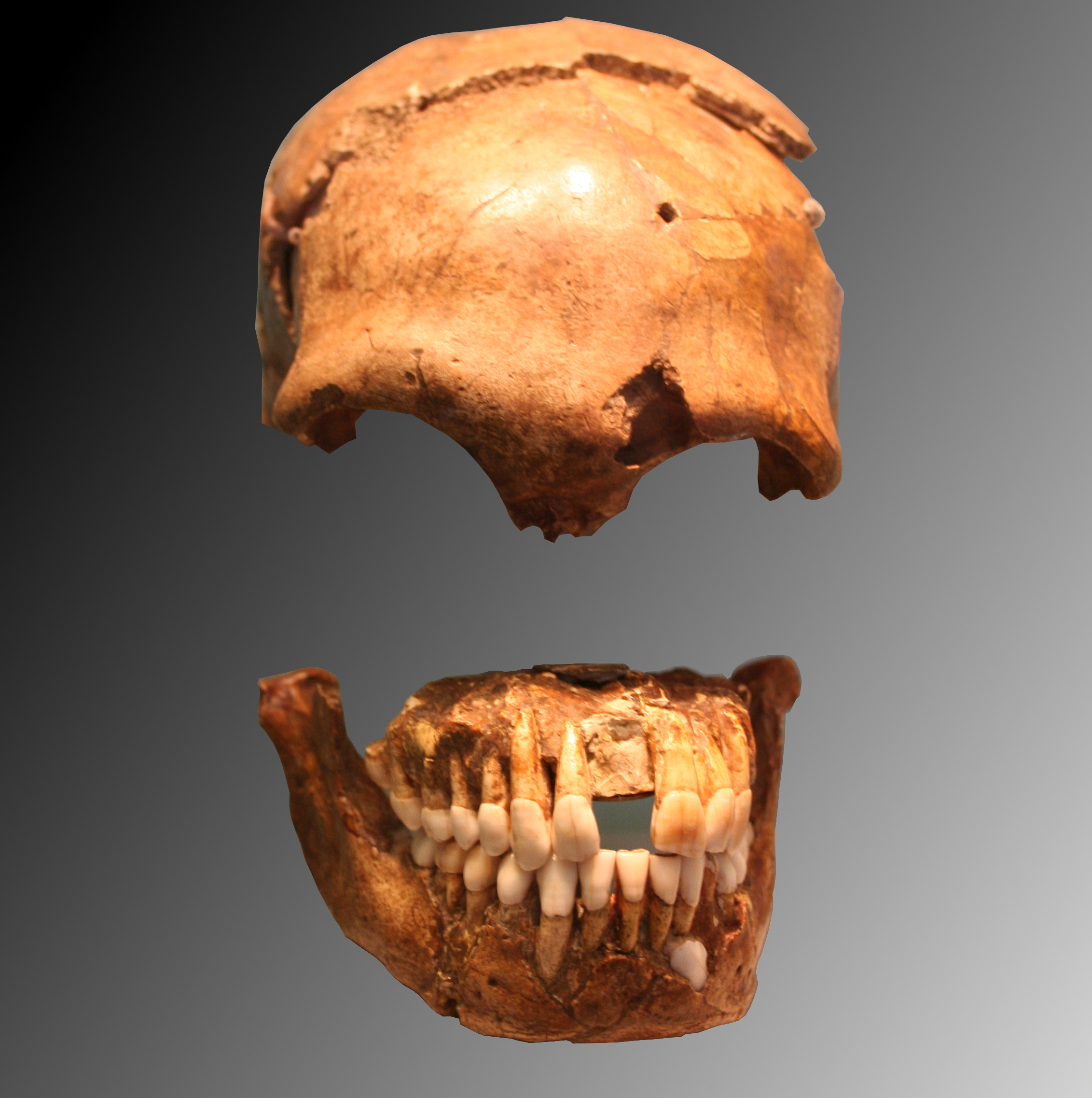 Le Moustier 1 in 2011.